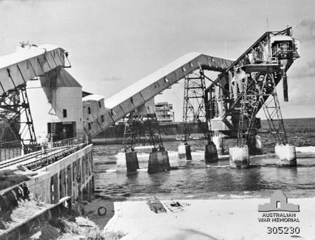 Australian War Memorial image 305230. PHOSPHATE CANTILEVER LOADING EQUIPMENT DAMAGED BY SHELLFIRE FROM THE GERMAN RAIDER KOMET ON 1940-12-27.